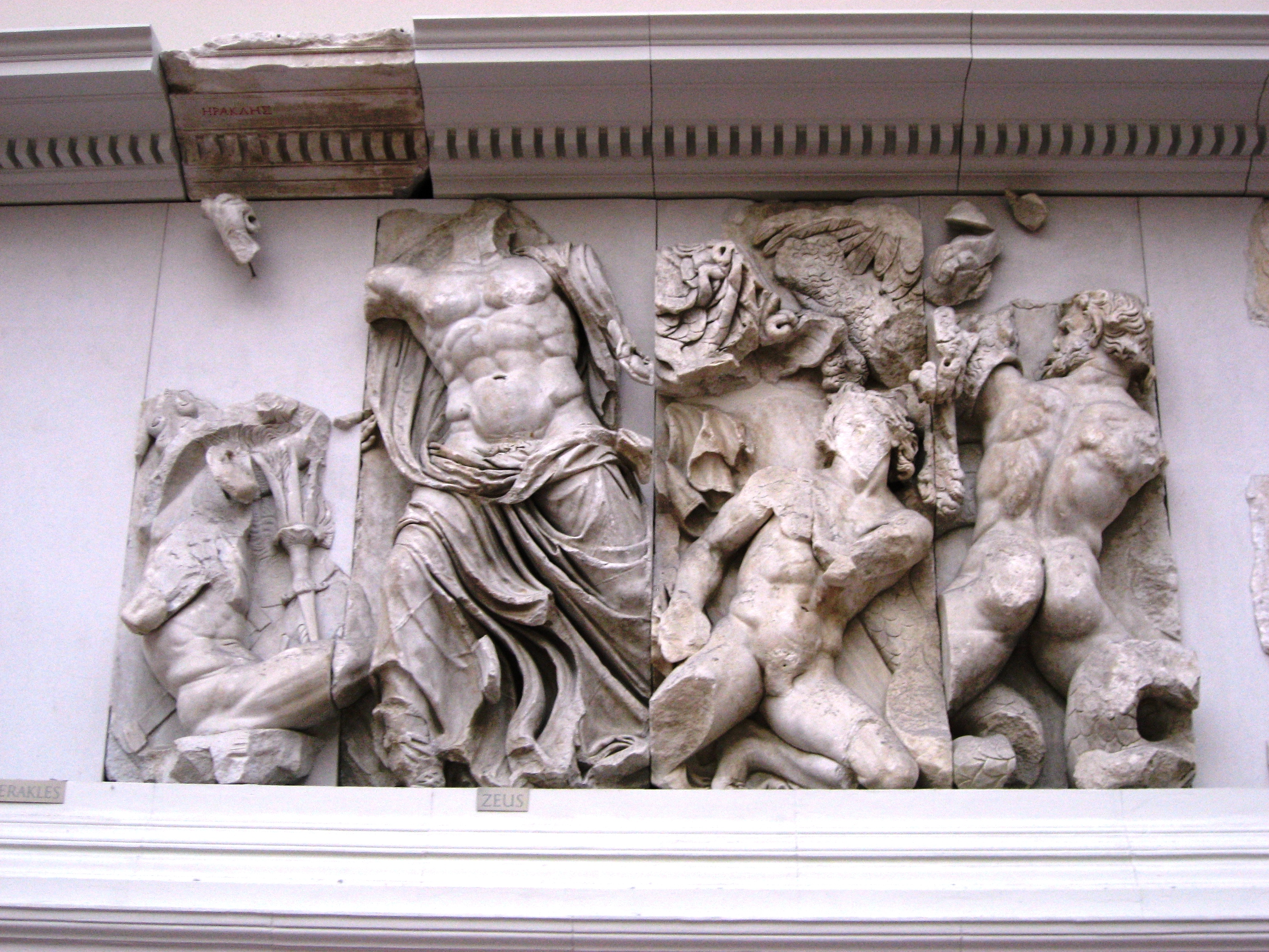 part of the Gigantomachy frieze of the Pergamon Altar. Zeus fights Porphyrion.